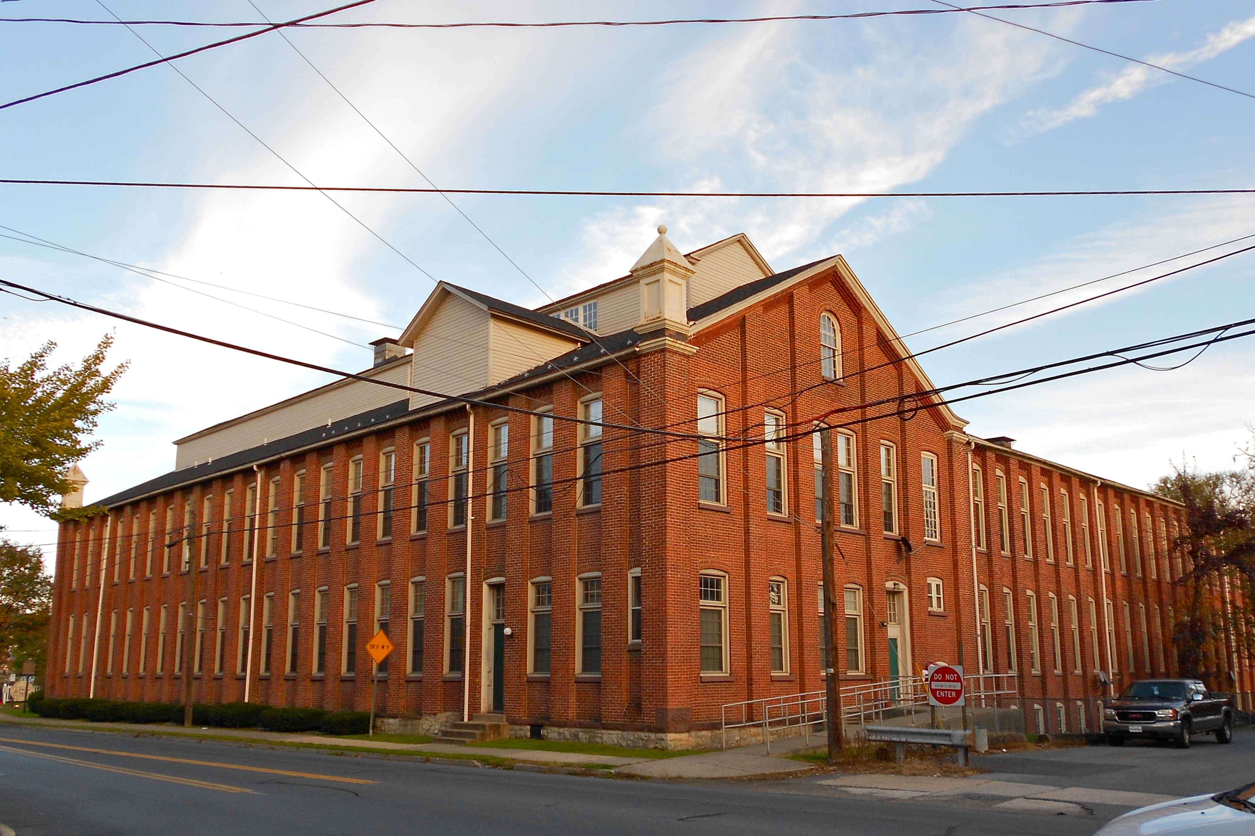 Dery Silk Mill in the Biery's Port Historic District on the NRHP since August 9, 1984. The HD is roughly bounded by Pineapple, Front, Race, and Mulberry Streets in Catasauqua, Lehigh County, Pennsylvania